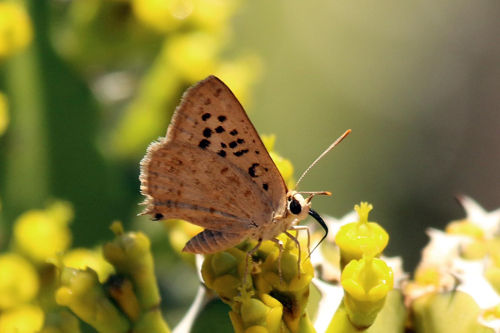 Silver-spotted grey butterfly (Crudaria leroma) male underside, Tswalu Kalahari Reserve, South Africa